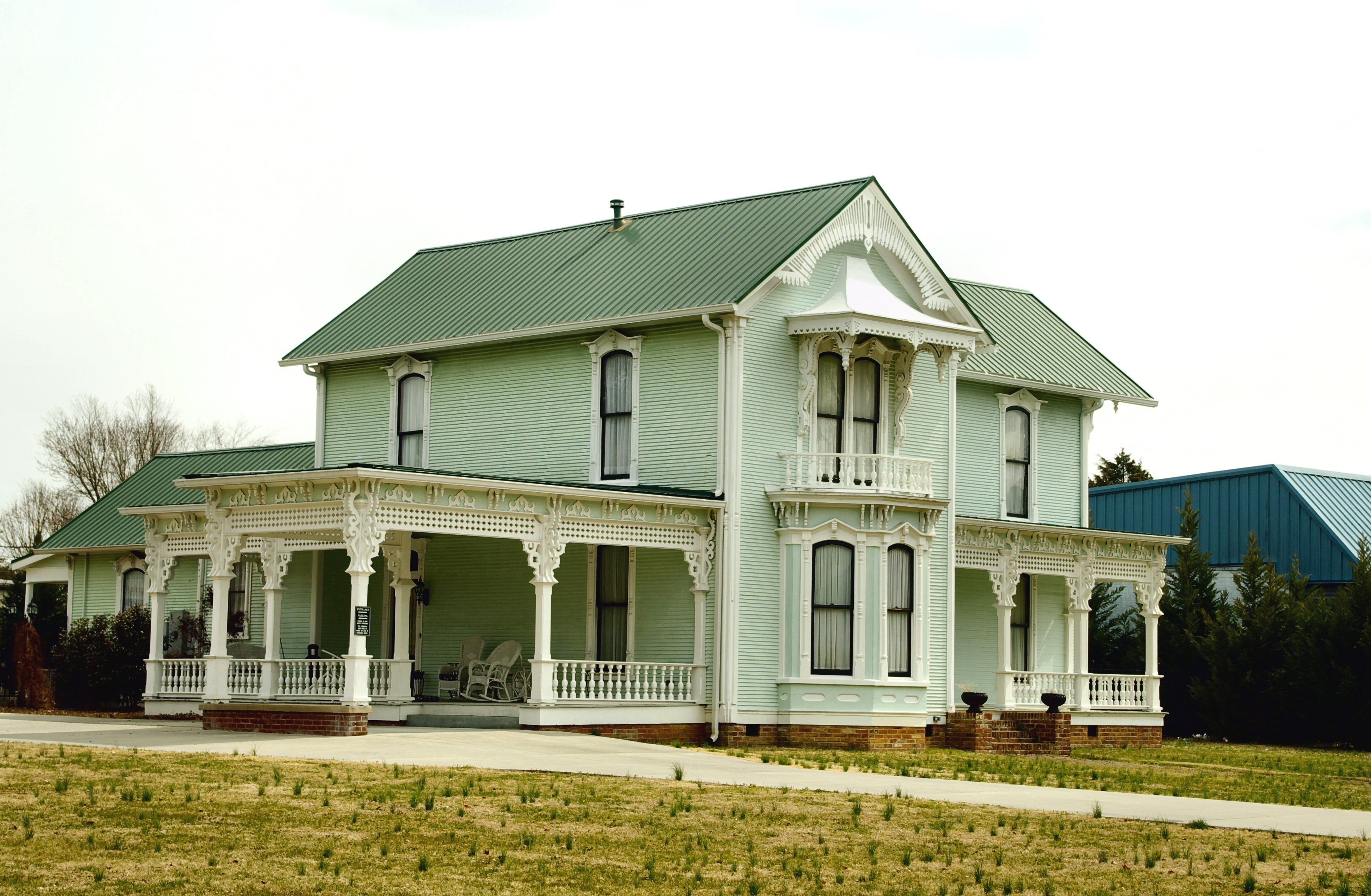 The Wilkinson-Keele House in Manchester, Tennessee, United States, built in 1888